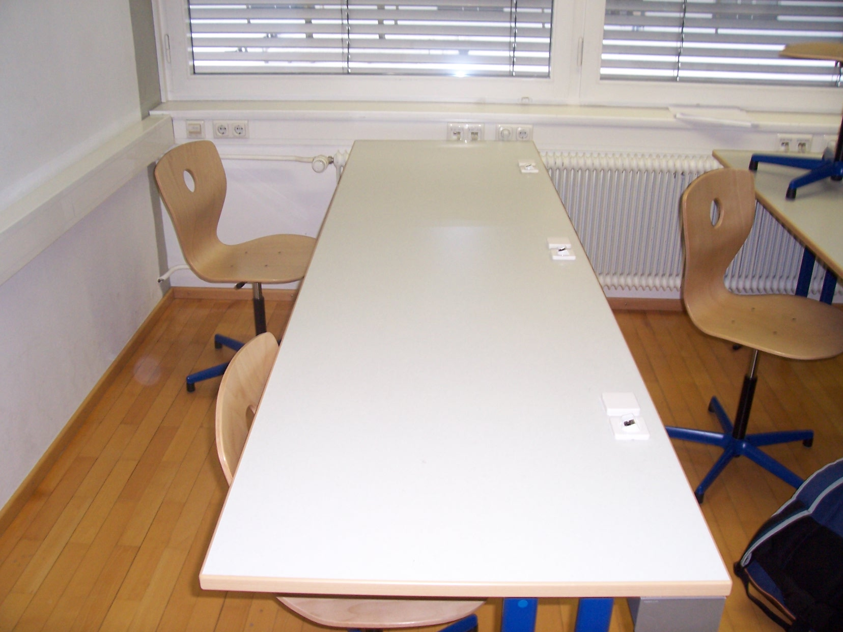 This picture shows a typical schooldesk in a HWI-Class.